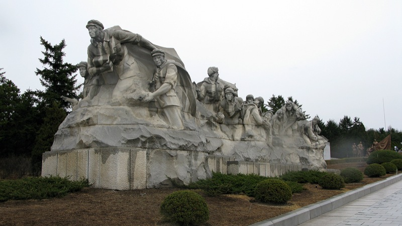 Revolutionary Martyr's Cemetery, Mt. Taesong, Pyongyang, North Korea (평양 대성산혁명렬사릉)